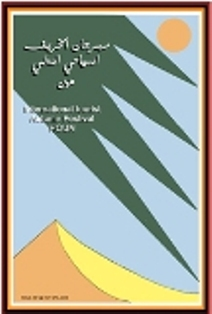 Houn festival logo